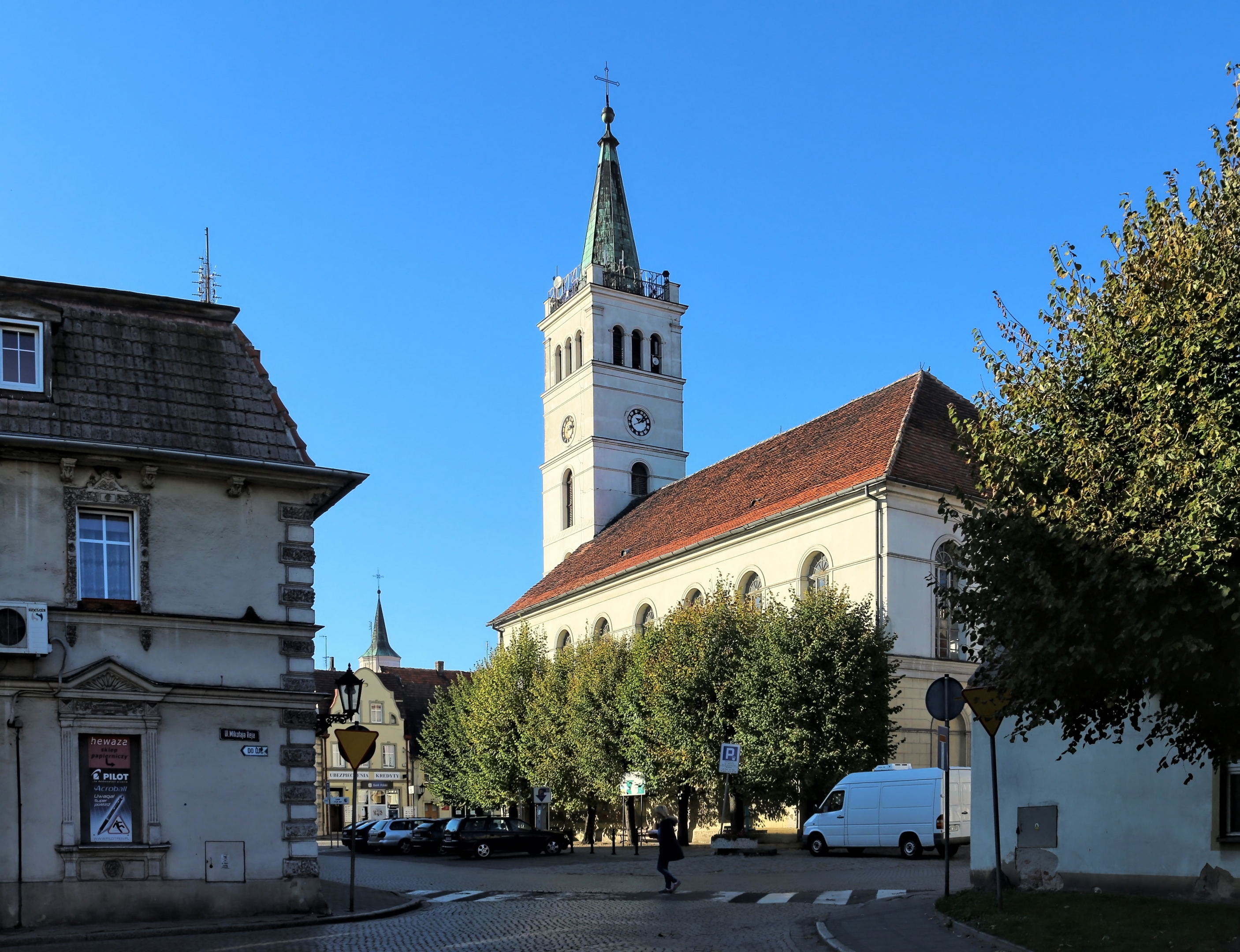 Divine Mercy Church in Sława